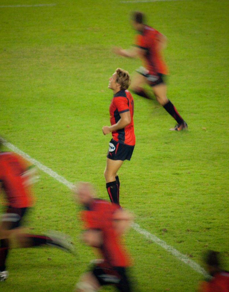 Chandelle de Jonny Wilkinson avec le Rugby club toulonnais. Chargeeeezzz ! Prise le 6 août 2009. Jonny Wilkinson with French team Rugby club toulonnais. 6 August 2009.